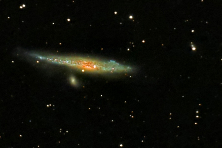 I took this photograph with my backyard telescope in Kalkaska Michigan. I am Scott Anttila and authorize this photo for use on Wikipiedia